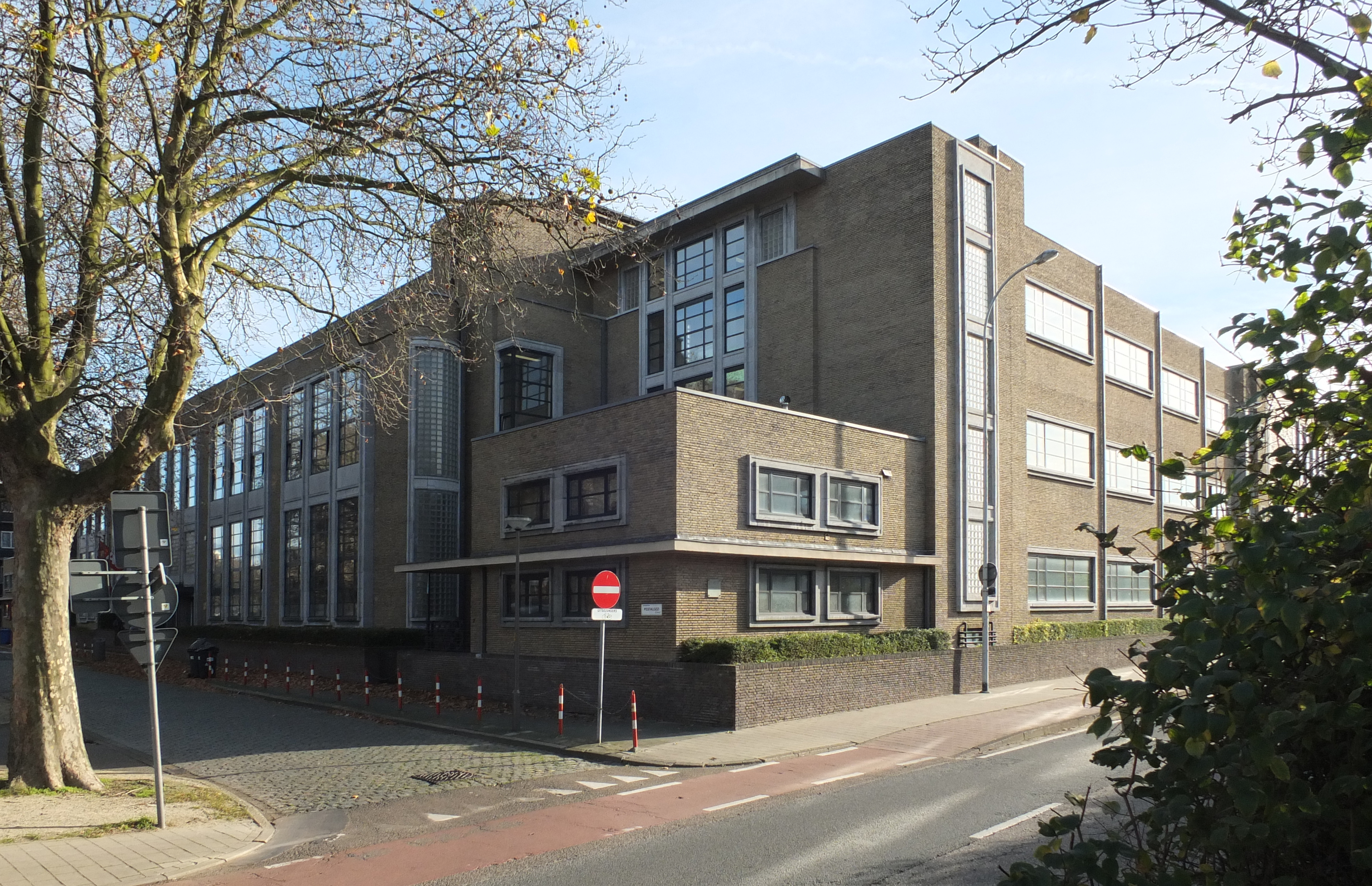 The Municipal Teacher Training School for Boys at Pestalozzistraat (on the corner with Jan de Voslei), now Stedelijke basisschool De Tandem en Stedelijk Lyceum Pestalozzi. The building in art deco style is a design of city architect Emiel Van Averbeke (1876-1946), anno 1930.